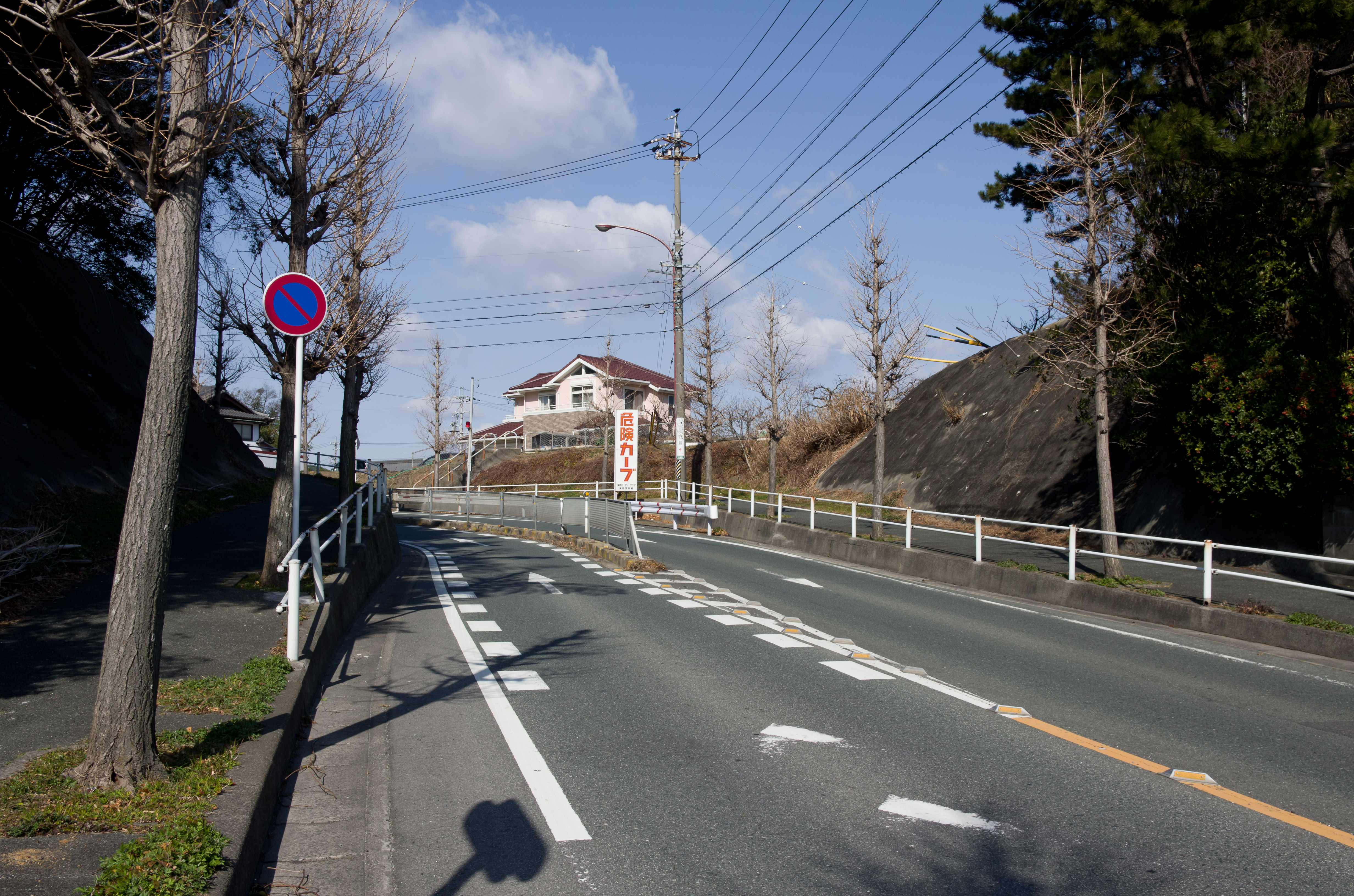 Sharp turn in Marine Road (Gamagori City)